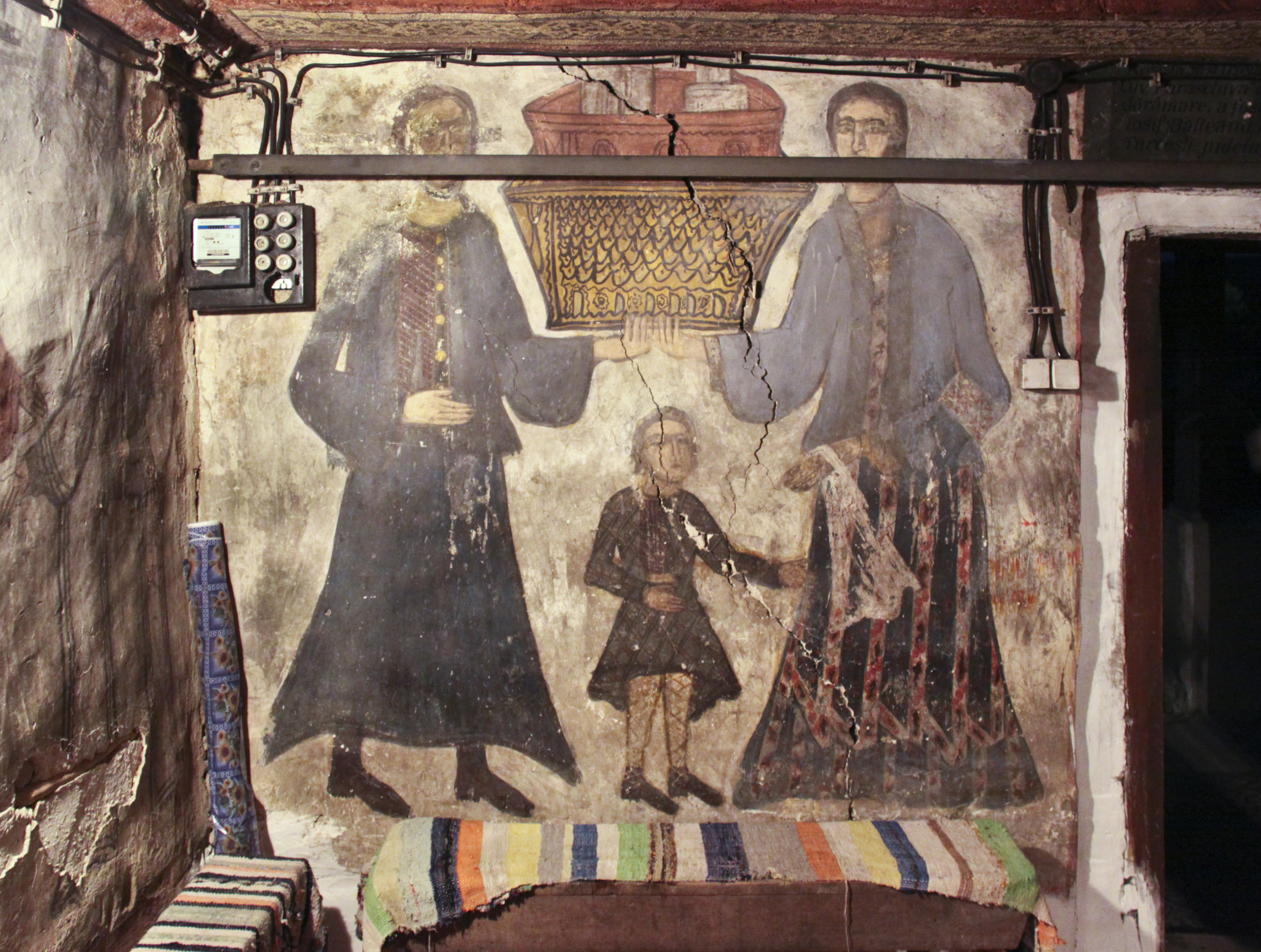 Dămţeni, Vâlcea county, Romania: the wooden church.